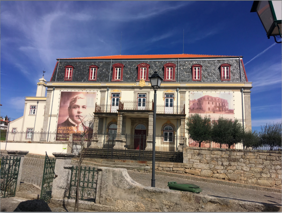 Aristides de Sousa Mendes' house at Cabanas de Viriato, Portugal